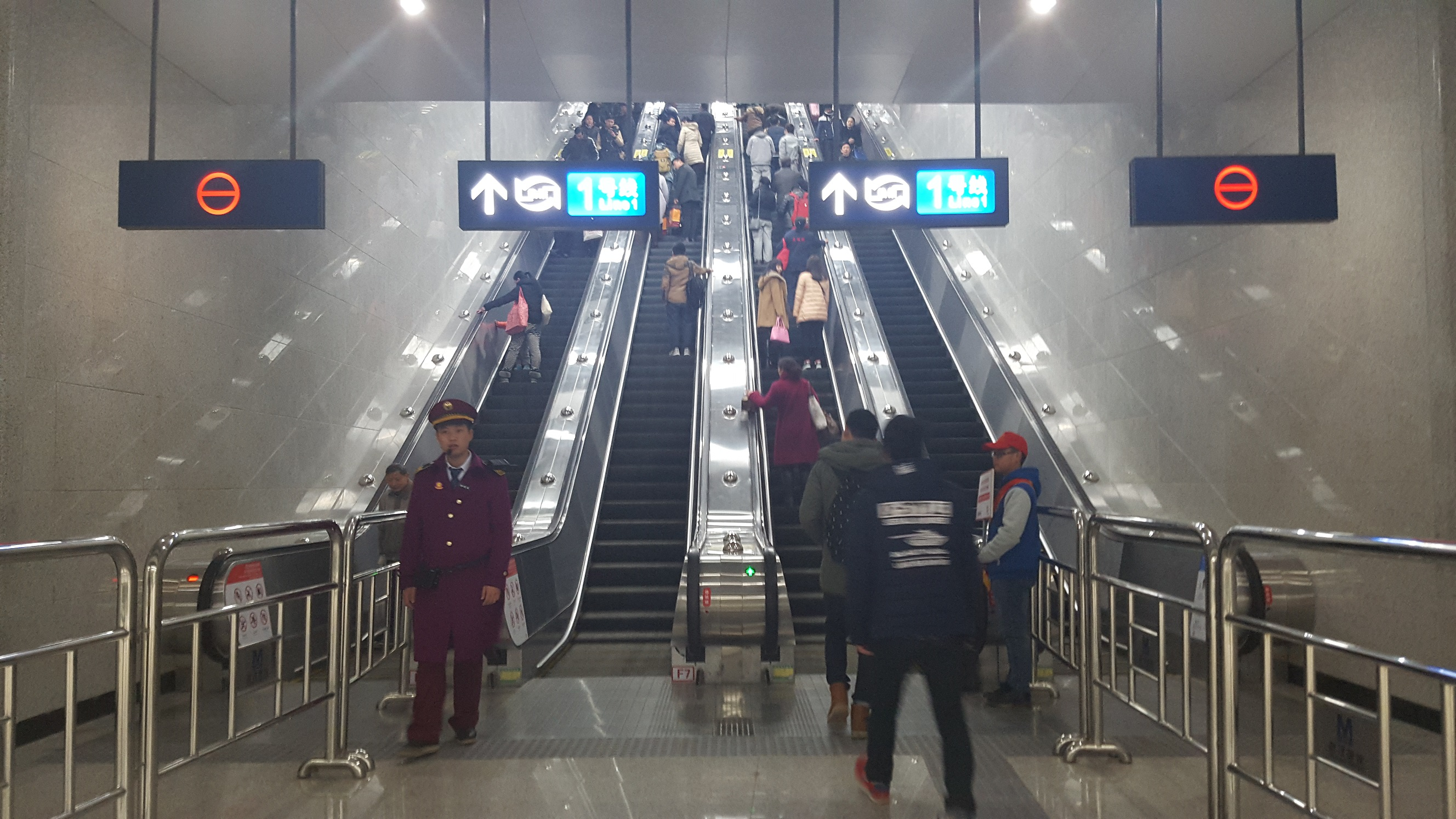 Fanhu Station Transfer channel to Line 1